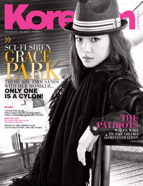 Magazine cover of KoreAm from February 2010; Grace Park